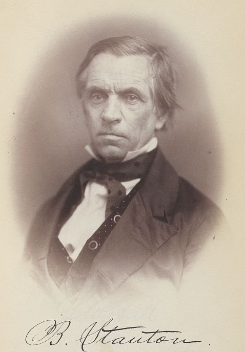 Benjamin Stanton, congressman from Ohio. From (1859) McClees' gallery of photographic portraits of the senators, representatives & delegates to the thirty-fifth Congress, Washington: McClees and Beck, p. 200 .